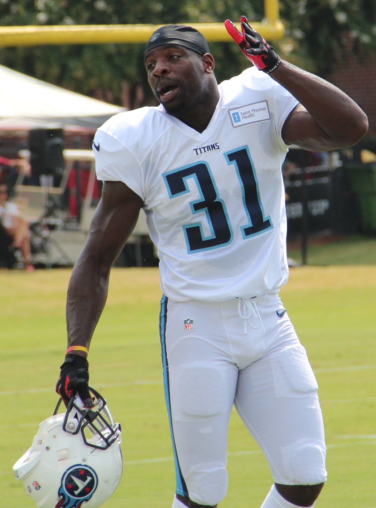 Bernard Pollard in 2014